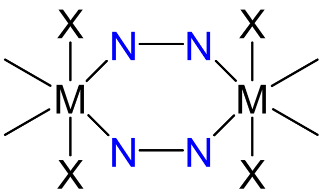 Bridged bidentate hydrazine, where N in blue represents NH2.